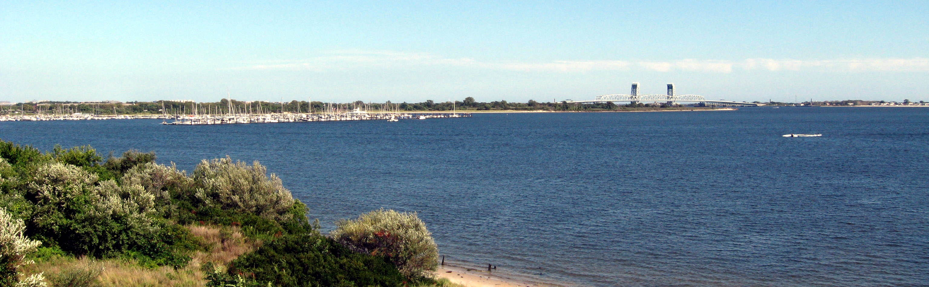 Looking southeast at Barren Island Marina on left, Dead Horse Bay center, and Gerritsen Inlet right, on a sunny afternoon. Marine Parkway Bridge in background.